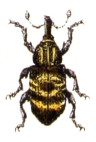 Hylobius abietis, from Calwer's Käferbuch, Table 31, Picture 21. Taxonomy was updated to 2008, using mostly the sites Fauna Europaea and BioLib. Please contact Sarefo if the determination is wrong!